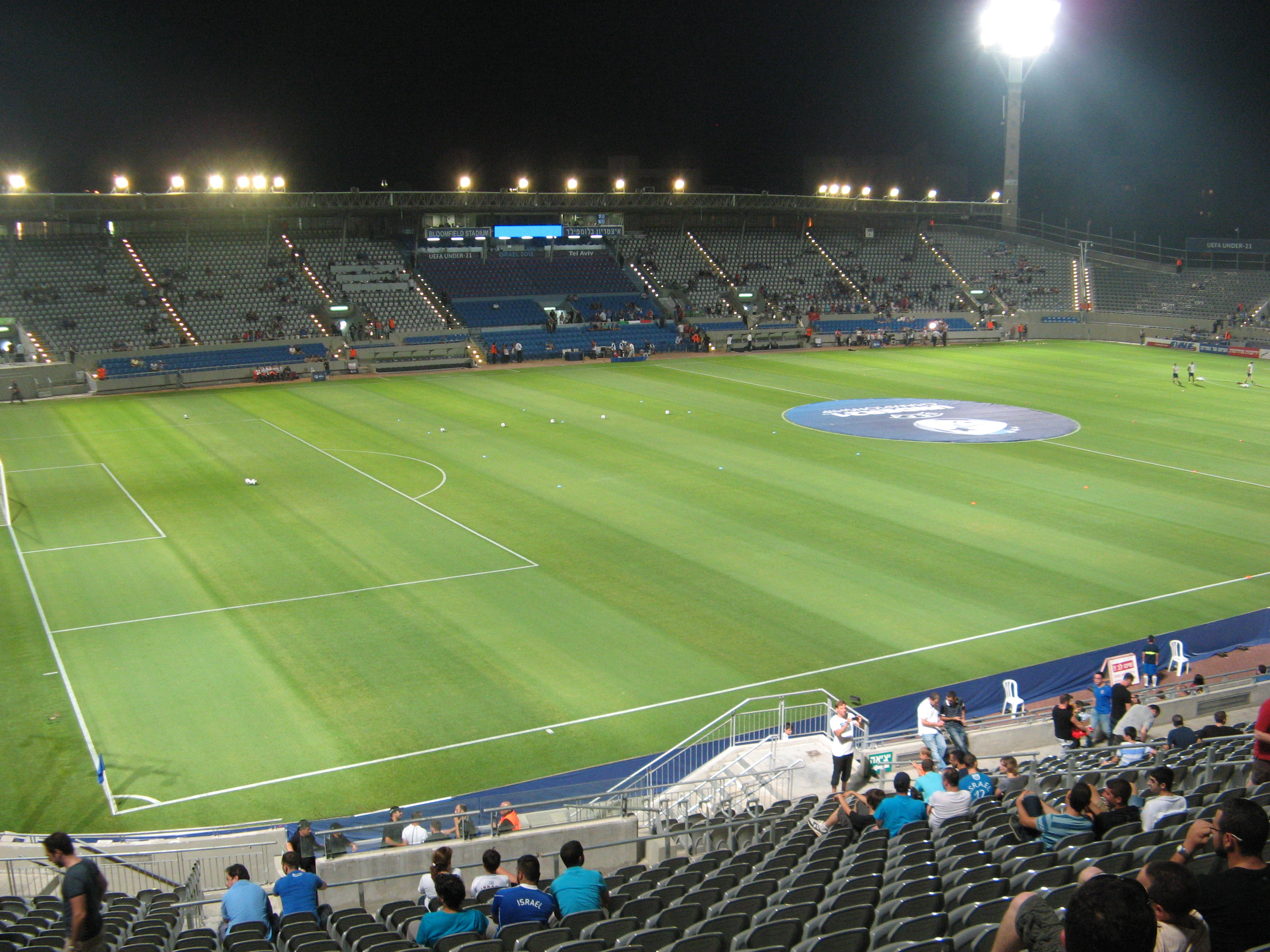 Bloomfield stadium in Tel Aviv-Yafo. A view from gate 8 during the match between Israel and Italy in the 2013 UEFA European Under-21 Football Championship